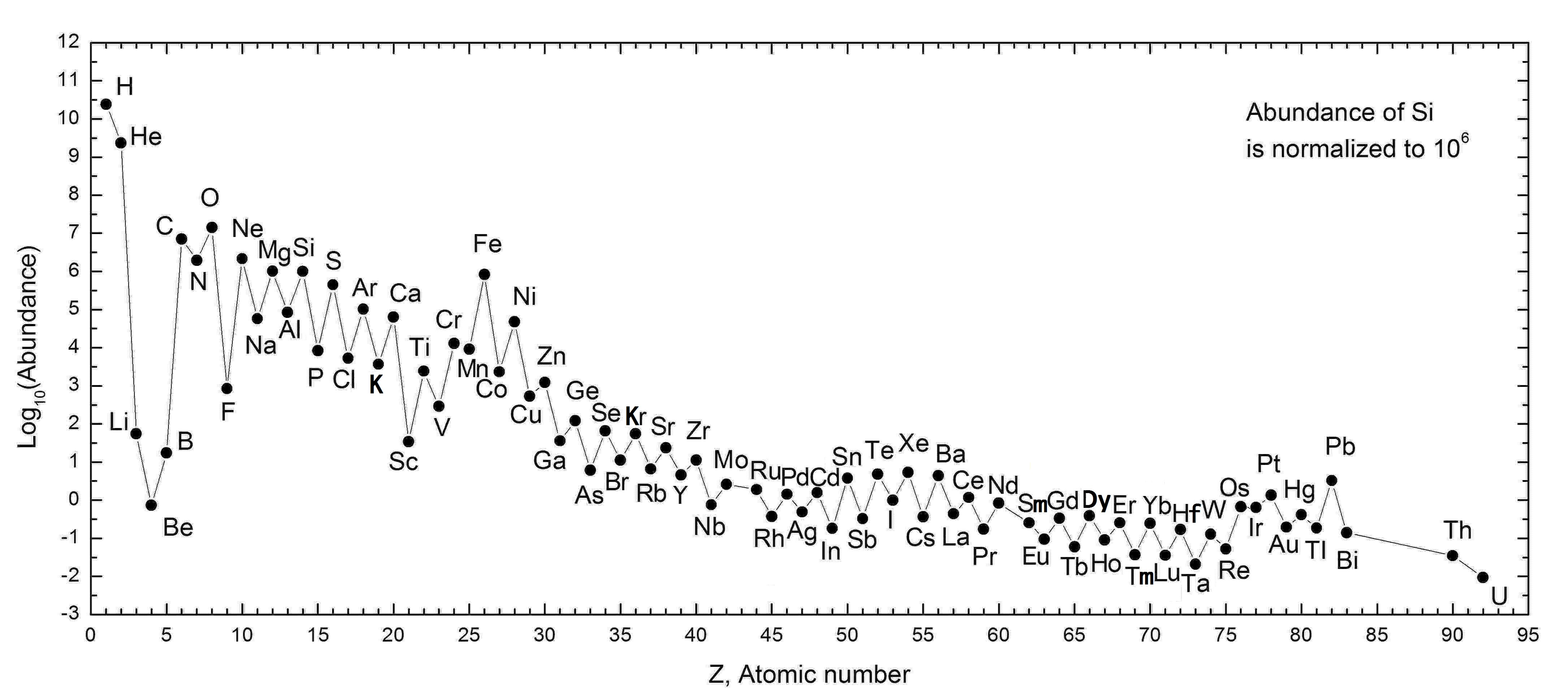 Numerical data from: Katharina Lodders (2003). "SOLAR SYSTEM ABUNDANCES AND CONDENSATION TEMPERATURES OF THE ELEMENTS". The Astrophysical Journal 591: 1220–1247. Composed by Orionus.